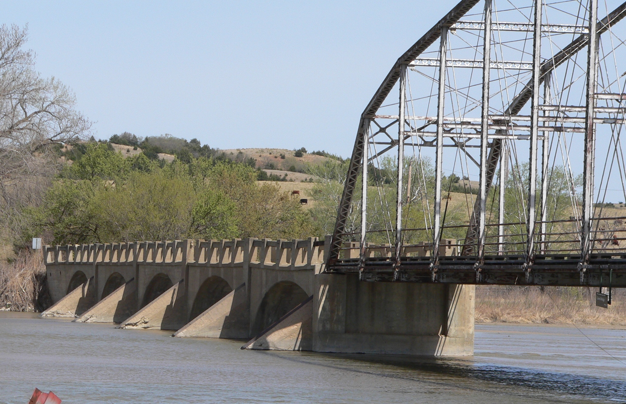 North end of Carns State Aid Bridge, crossing the Niobrara River from Rock County, Nebraska on the south bank to Keya Paha County, Nebraska on the north; seen from the southwest. The northern portion of the bridge is a set of five concrete-filled spandrel arch spans; it was built in 1913. A sixth southern span and the approach to the bridge were washed out in 1962; the gap was filled with two truss spans salvaged from elsewhere in the state. The bridge is listed in the National Register of Historic Places.